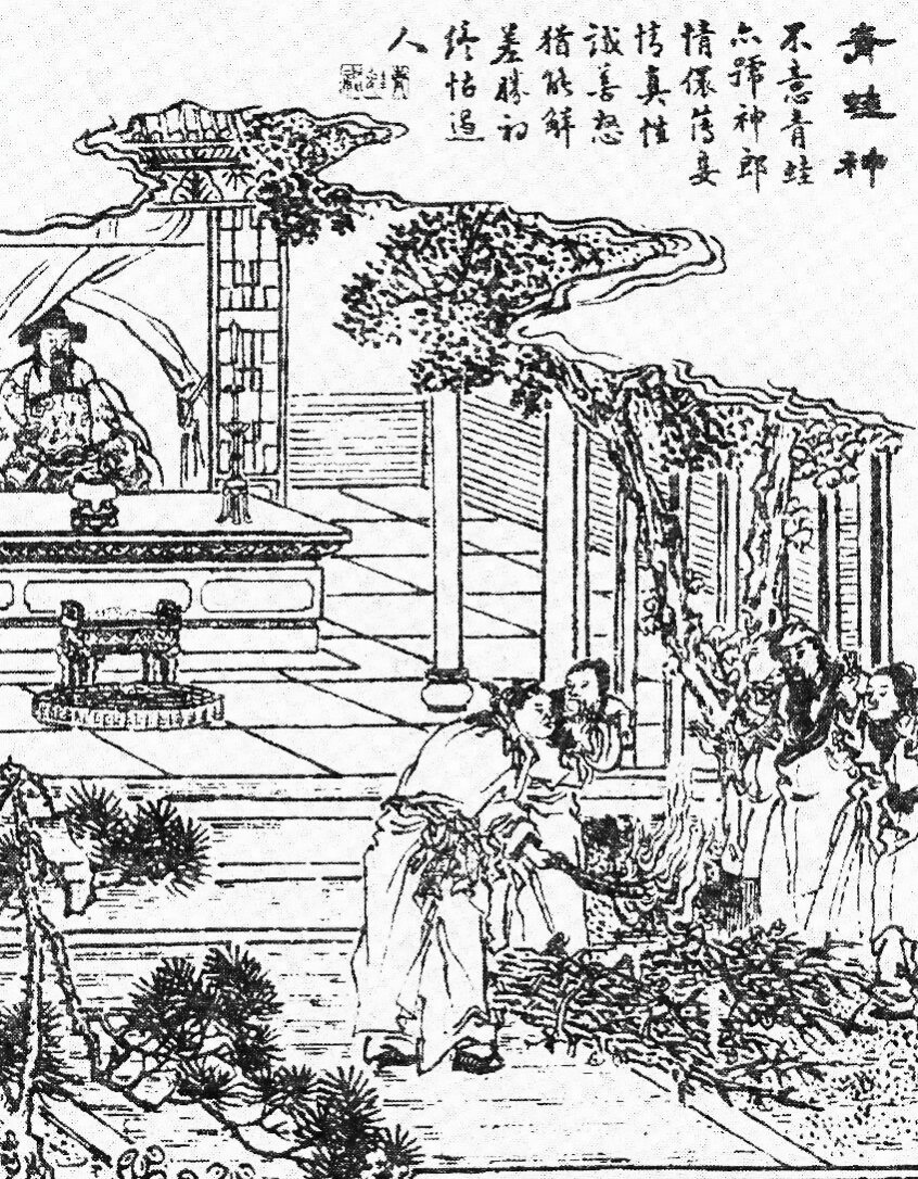 A 19th-century illustration of a scene in "The Frog God", a short story collected in Strange Tales from a Chinese Studio".